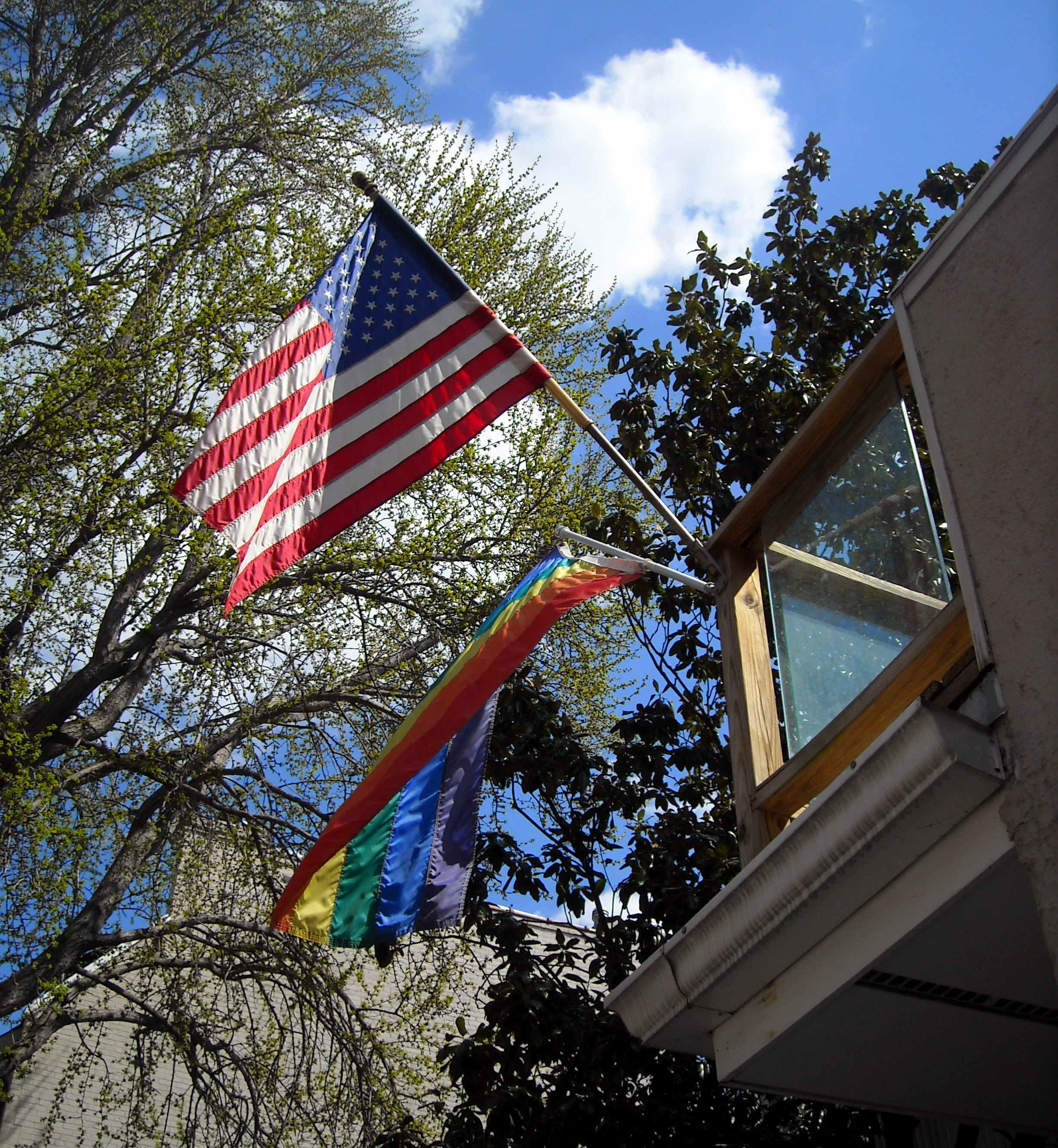 The American and LGBT movement flags displayed in the Dupont Circle neighborhood of Washington, D.C.